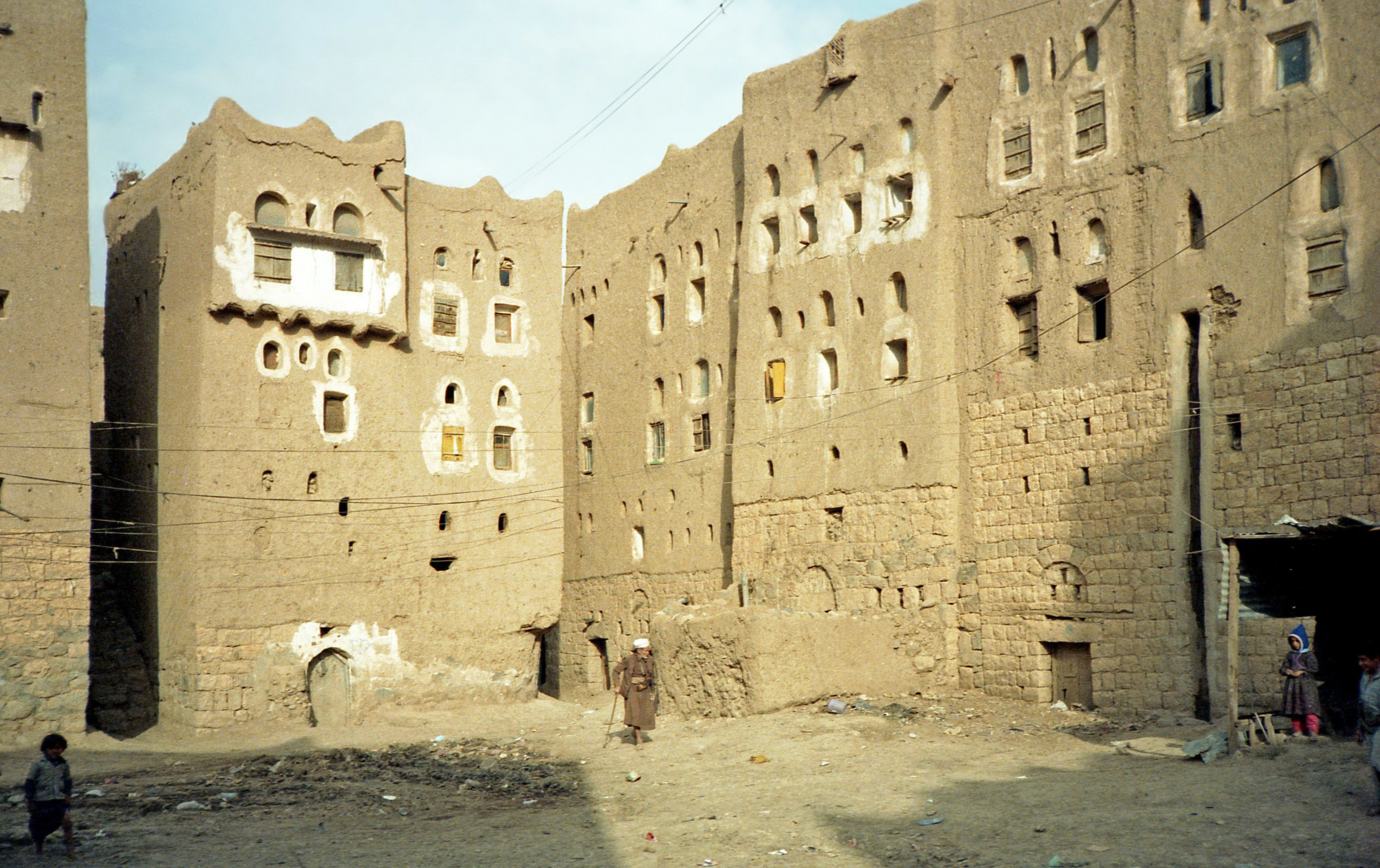 Mud and stone houses in Amran, Yemen.